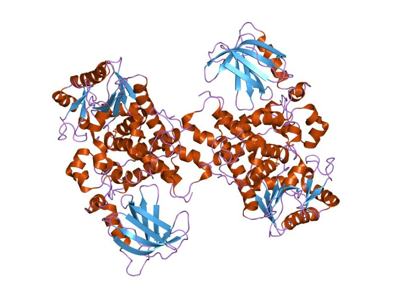 Cartoon representation of the molecular structure of protein registered with 1m7r code.